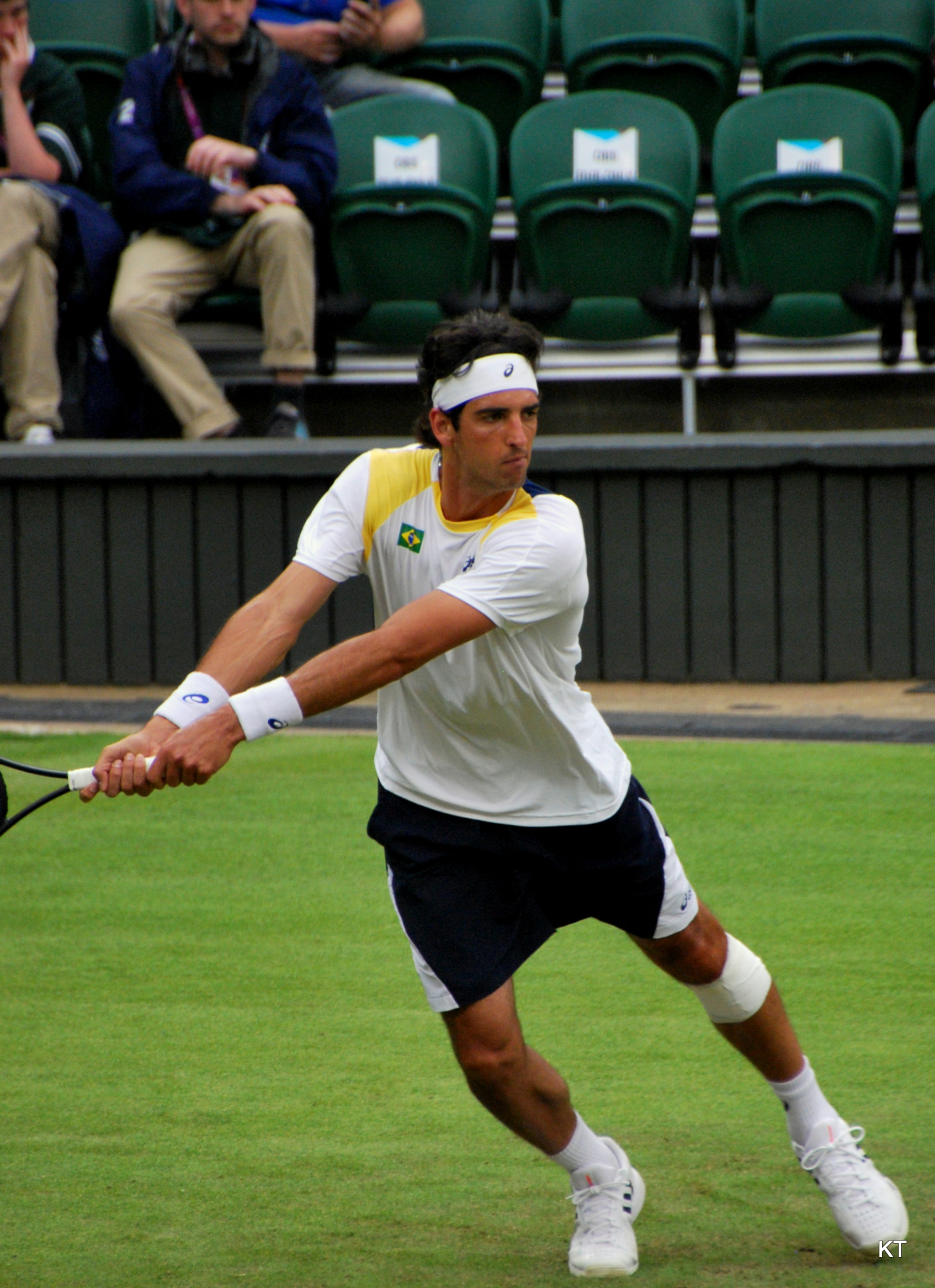 Thomaz Bellucci giving Jo-Wilfried Tsonga more trouble than most expected in their first round match at the 2012 Olympics.